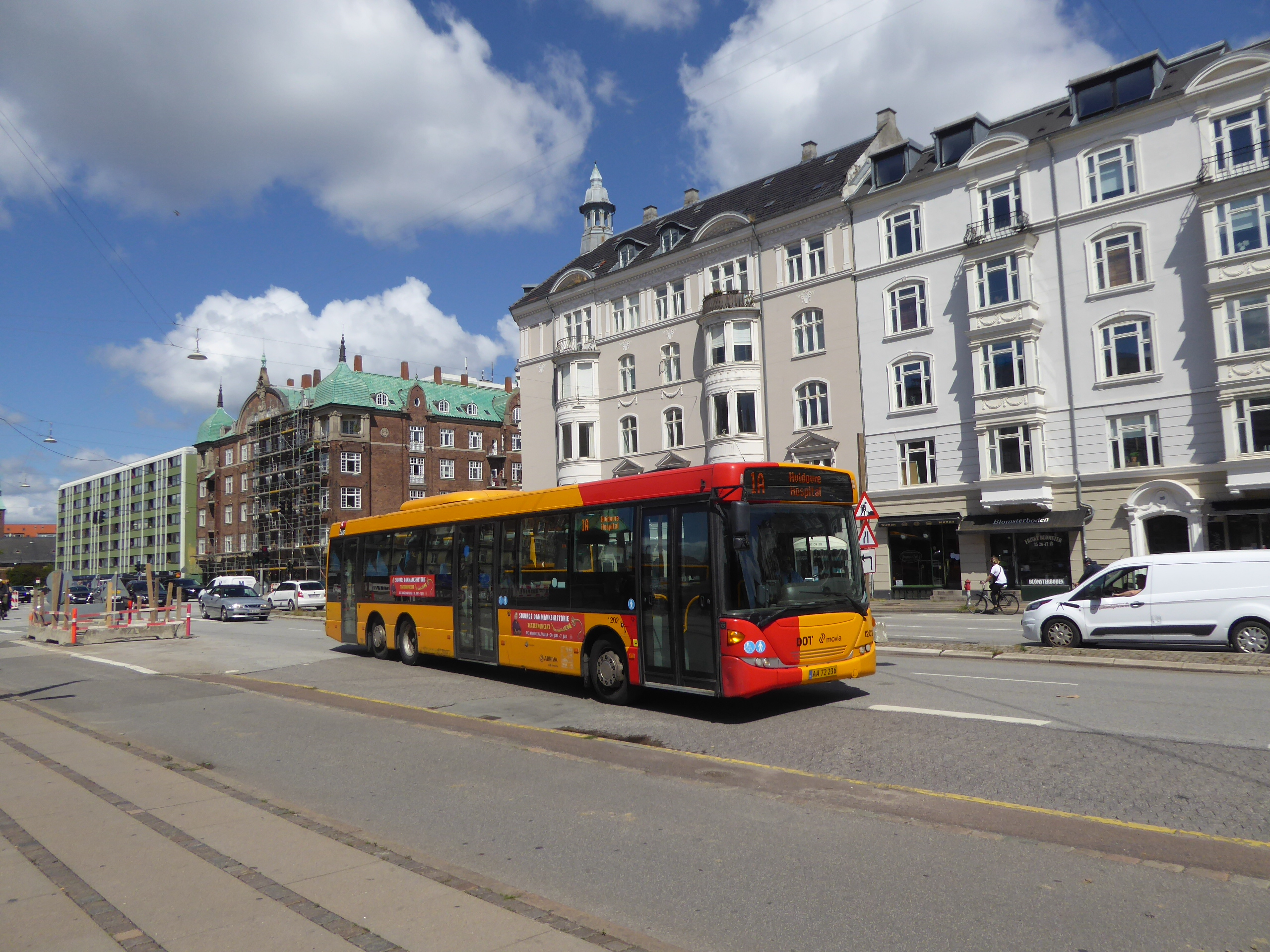 Movia bus line 1A on Østerbrogade at Strandboulevard in Østerbro in Copenhagen.